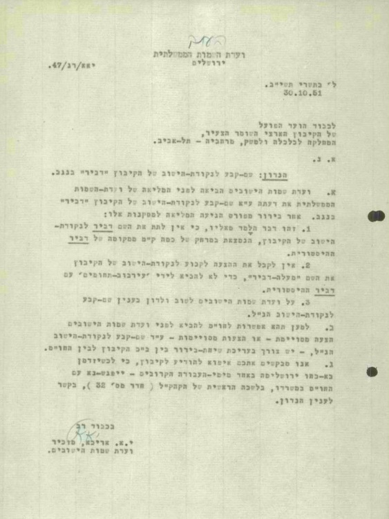 Letter from the national naming committee to the kibbutz about its name. October 30, 1951